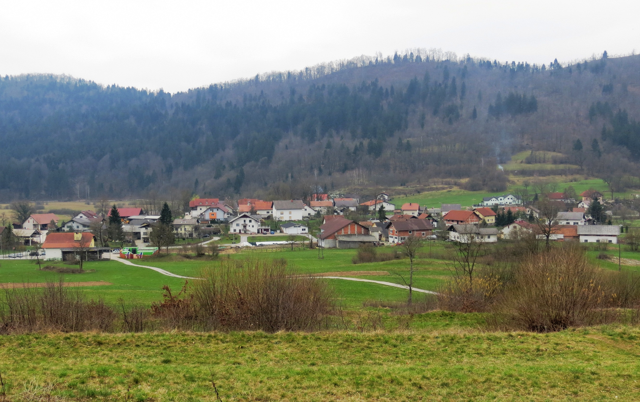 Jezero, Municipality of Brezovica, Slovenia